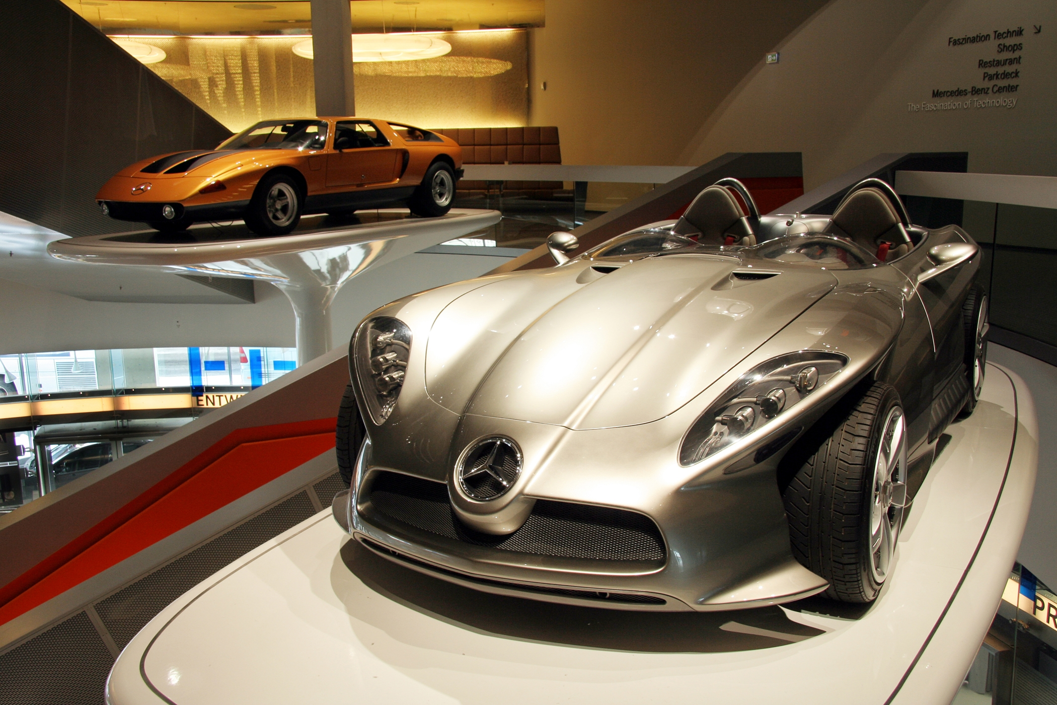 Mercedes-Benz C111 Prototype / Mercedes-Benz F400 "Carving" Prototype